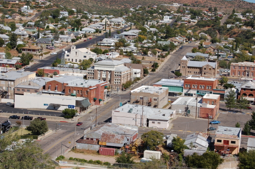 Downtown Globe, Arizona